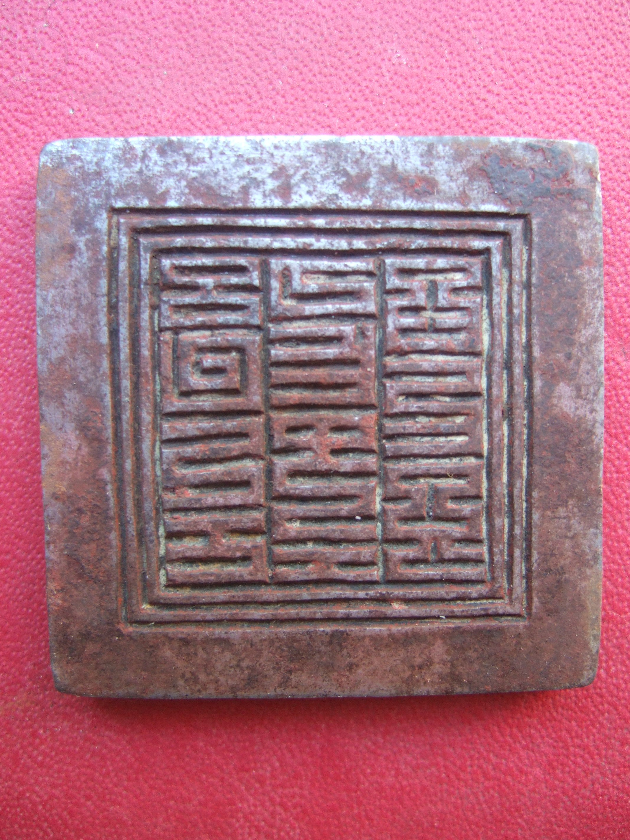 Tibetan iron seal with inscription in 'Phags pa (seal script)